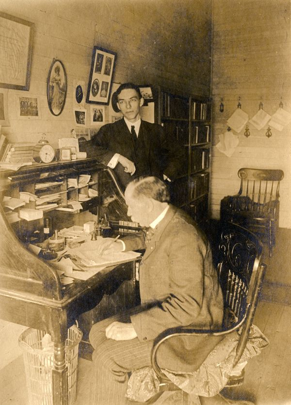 Secretary of State R.A. Gray in office with Comptroller Ernest Amos in Tallahassee. Gray, R. A. (Robert Andrew), 1882-1975. Amos, Ernest, 1867-1943.